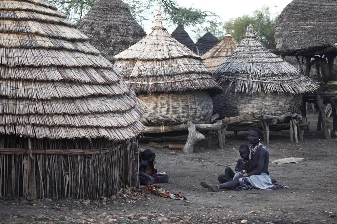 A village in South Sudan